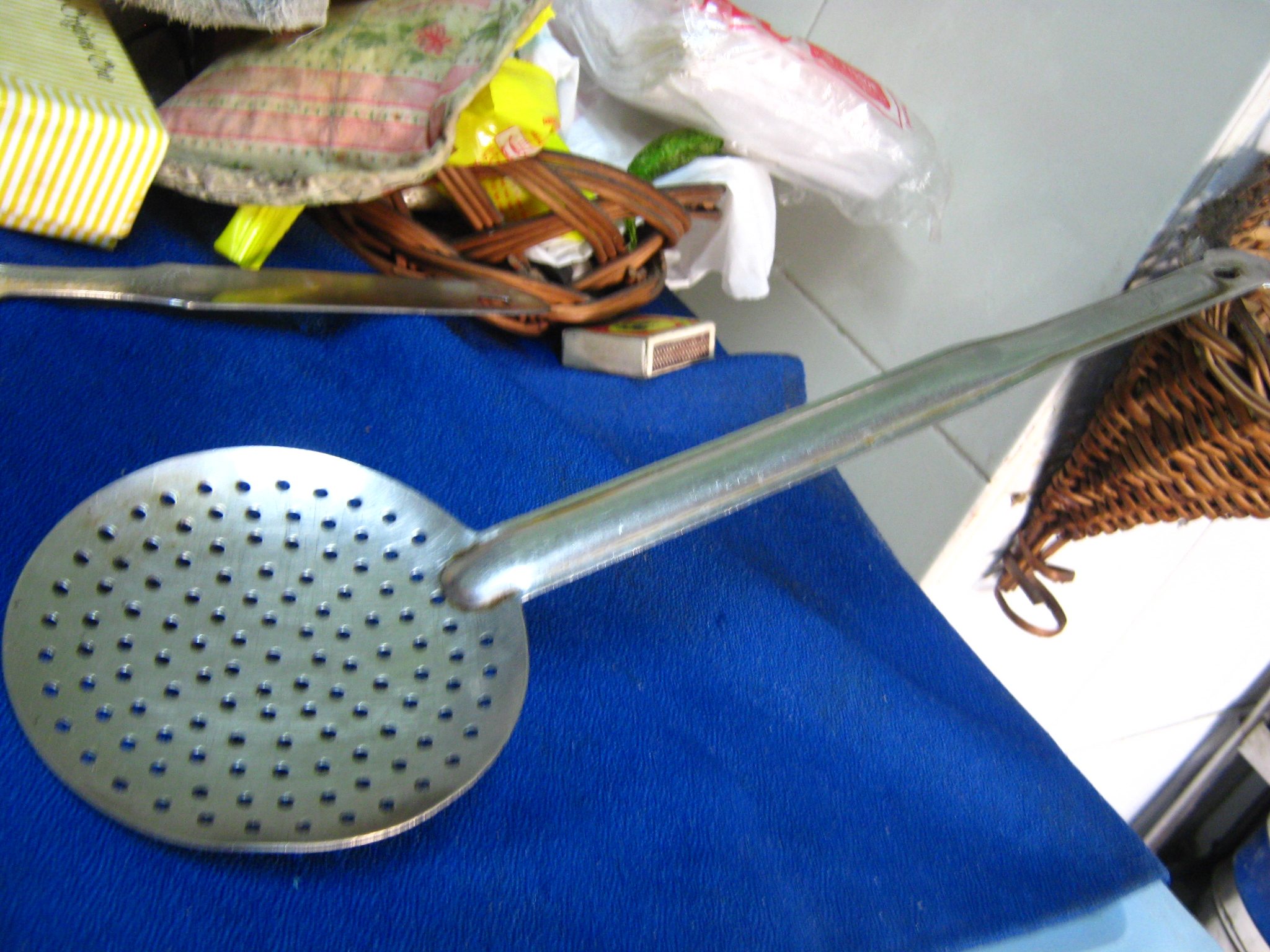 utensils used in Indian kitchen.